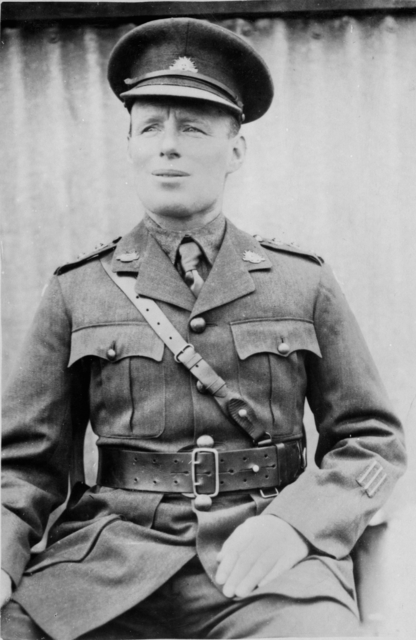 Outdoor portrait of Captain James Ernest Newland VC, an Australian recipient of the Victoria Cross during the First World War.